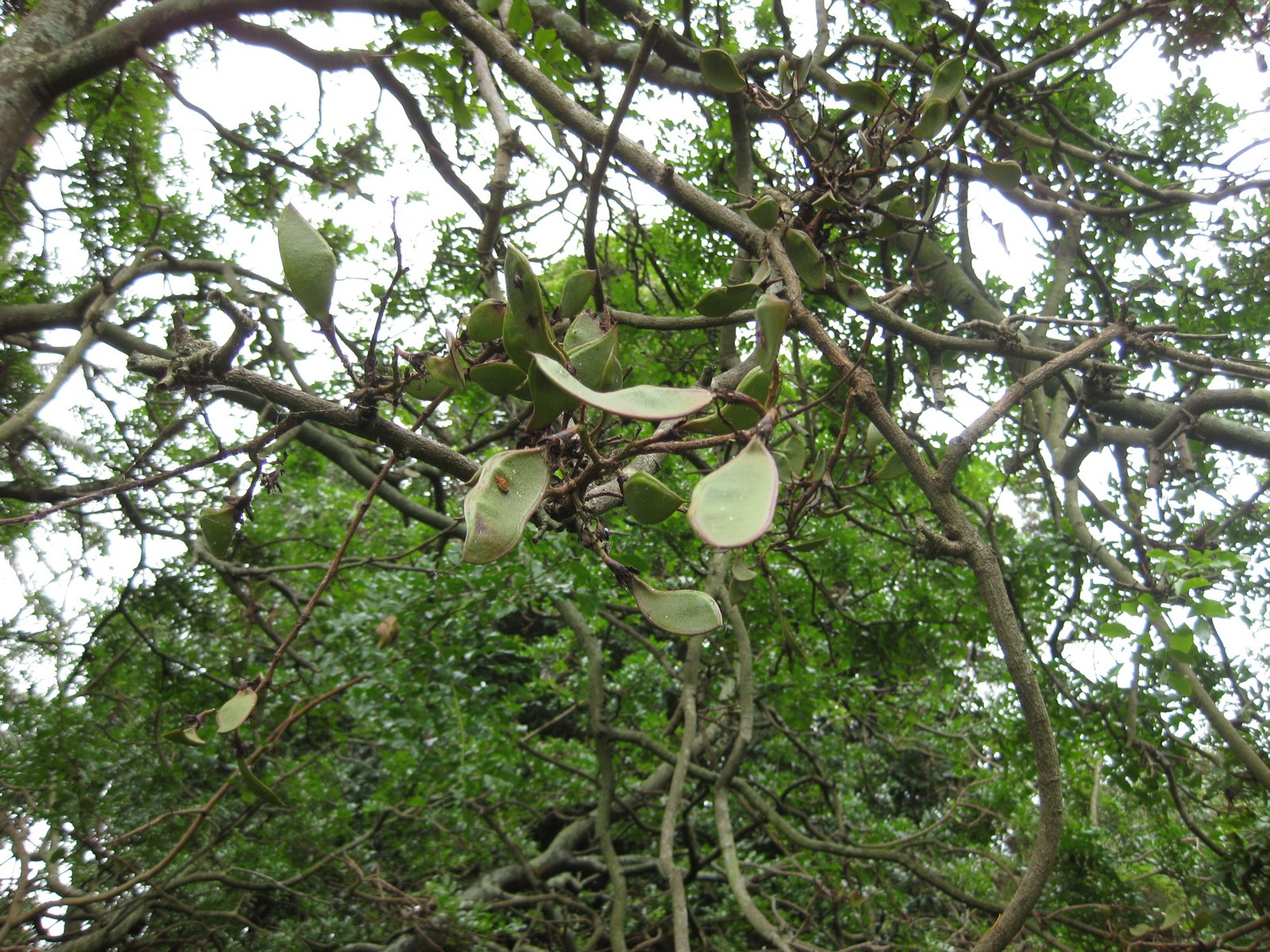 Photographed at the Royal Botanic Gardens Sydney (Australia) in January